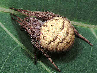 female Neoscona punctigera from Okinawa.